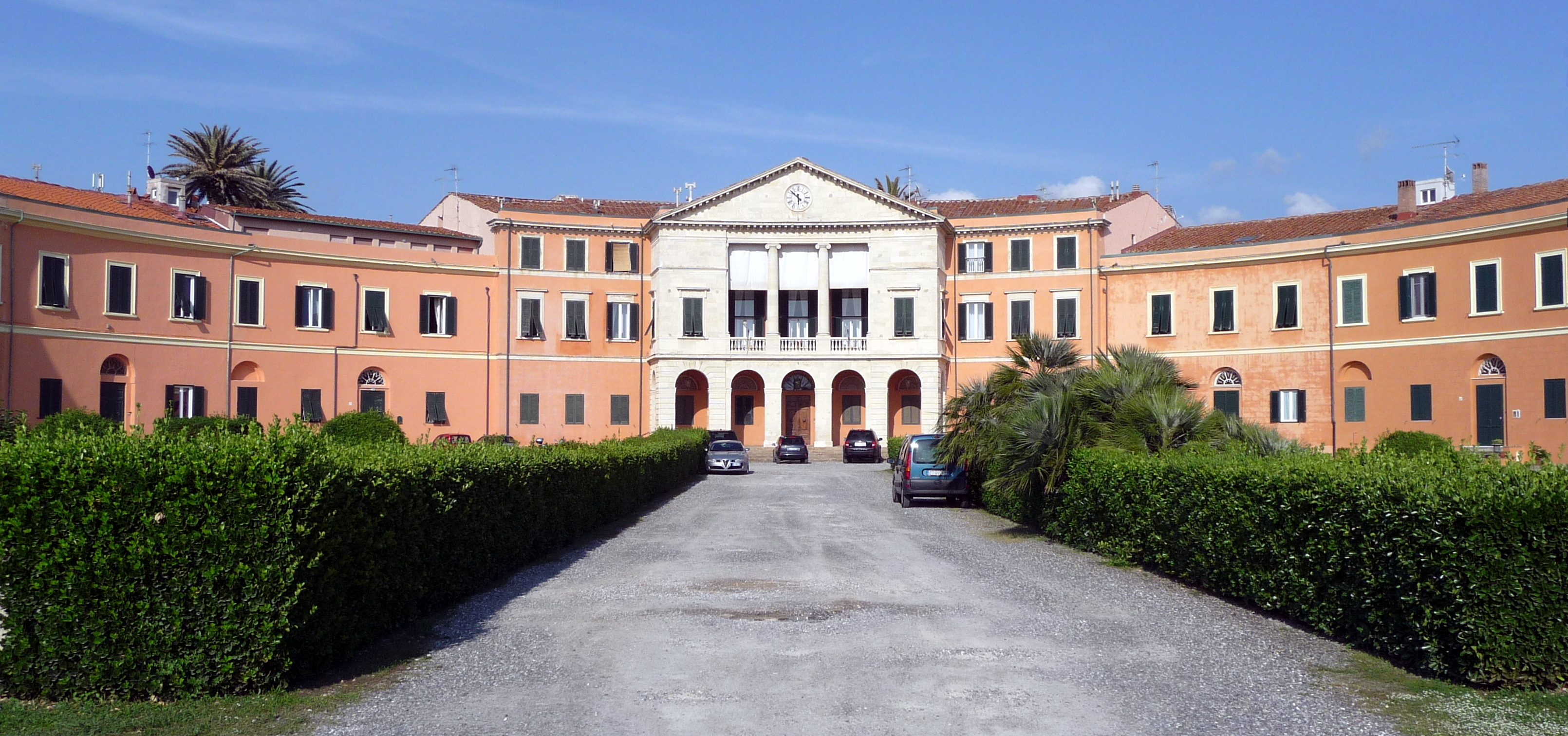 Palace Casini d'Ardenza, by Architect Giuseppe Cappellini, Livorno, Italy